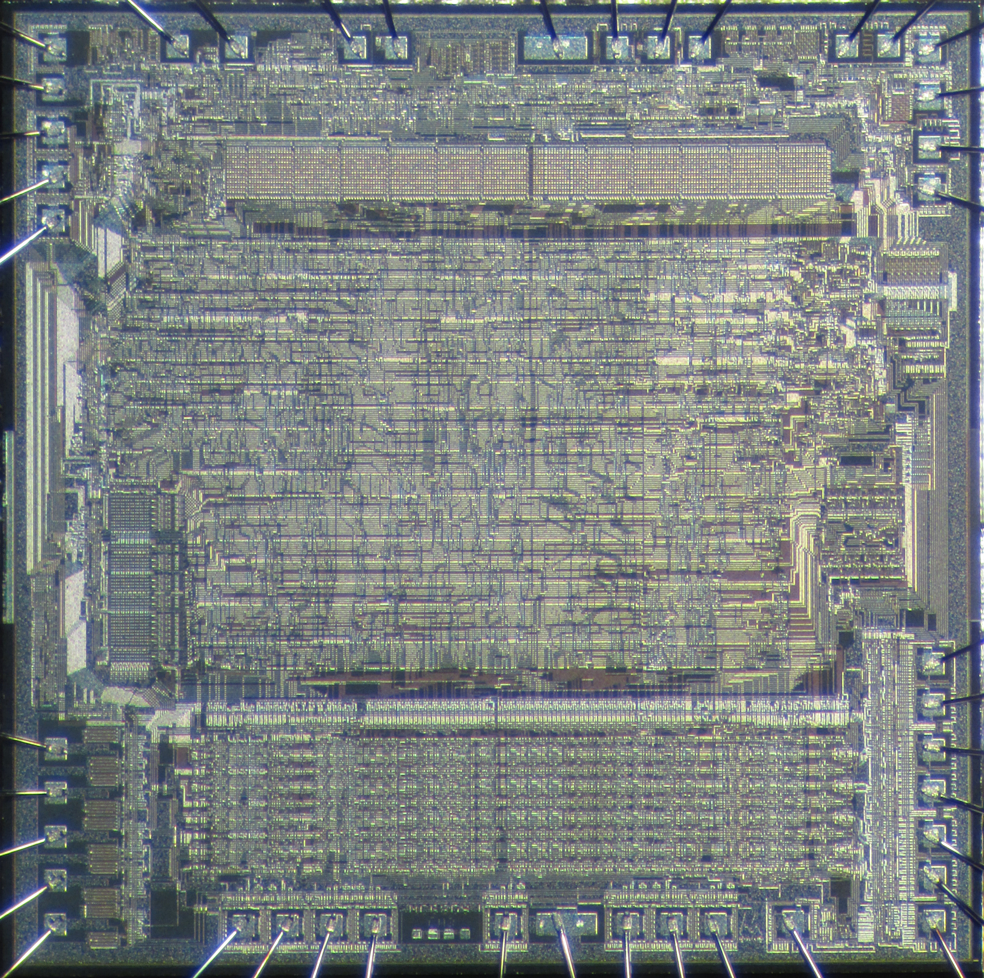 Die shot of Motorola 6809 microprocessor (MC68B09L).